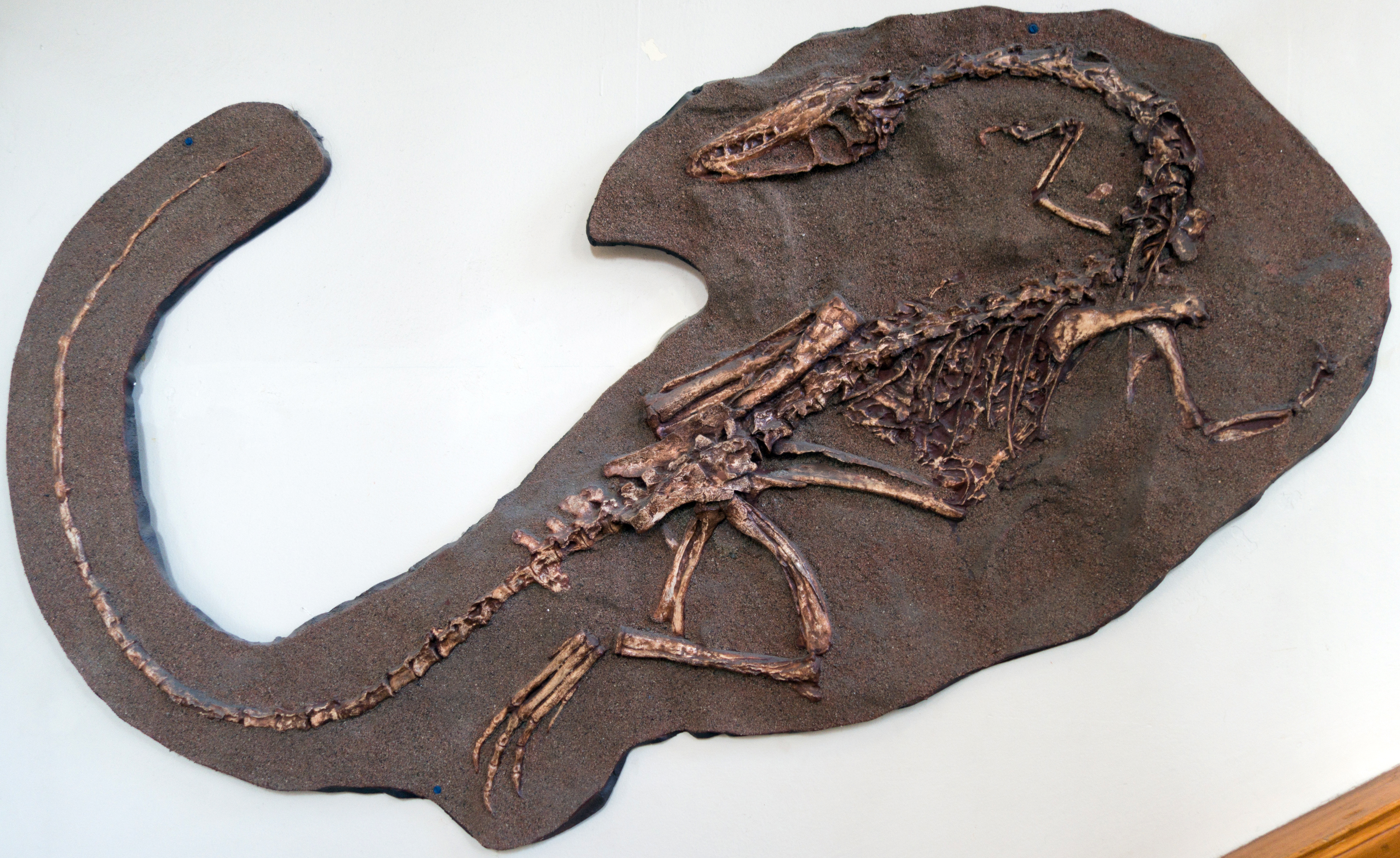 Coelophysis neotype cast Redpath Museum, McGill University, Montreal, Québec, Canada, 2017